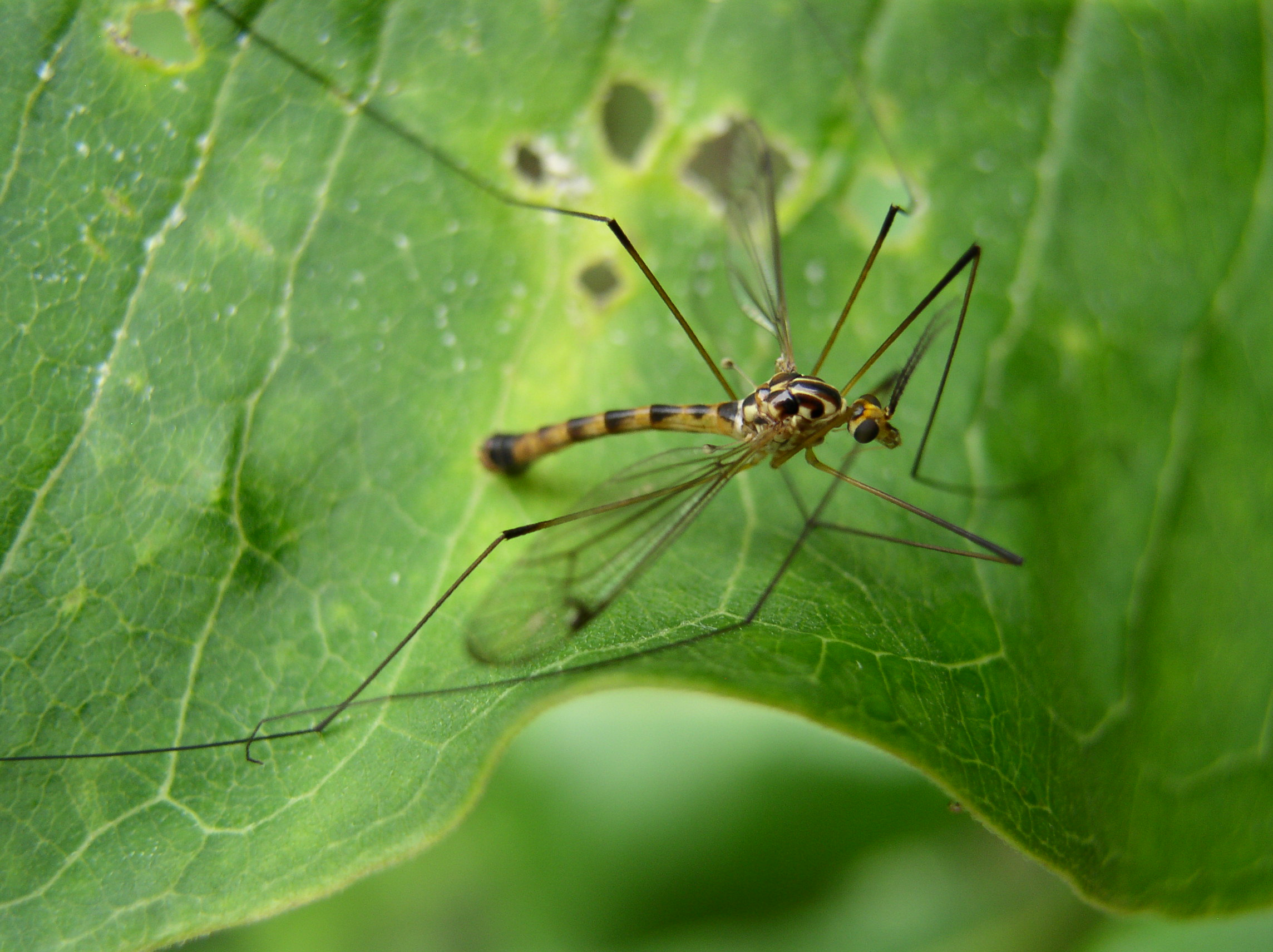 Nephrotoma alterna male. Churchville Nature Center, Bucks County, Pennsylvania, USA.